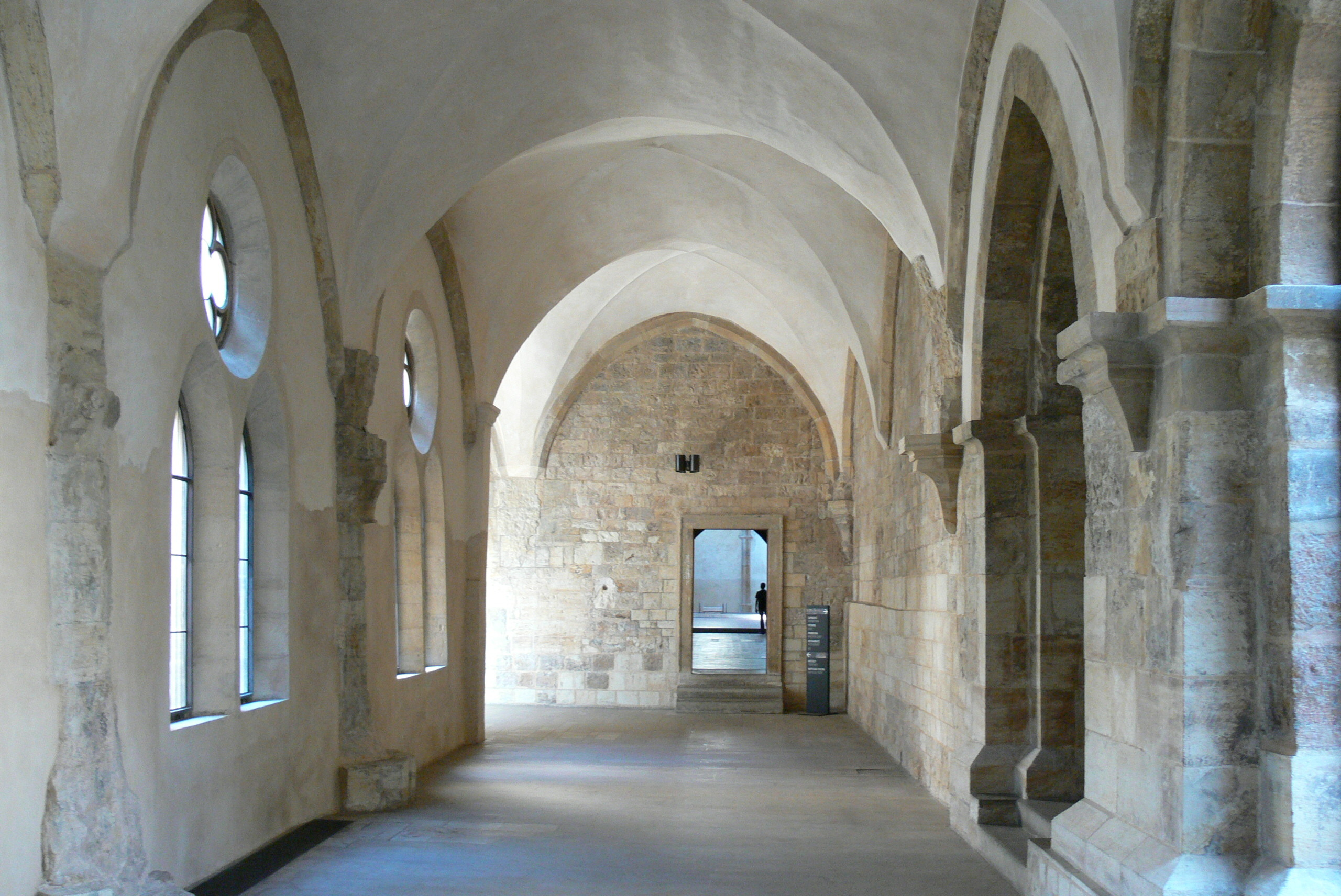 Convent of Saint Agnes of Bohemia ( Prague ). Gothic cloisters.